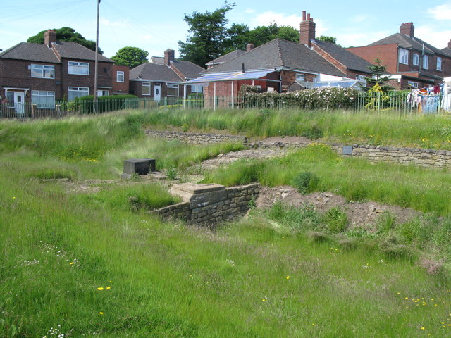 The Vallum crossing at Benwell Fort The Vallum was diverted around Benwell Fort to its south.